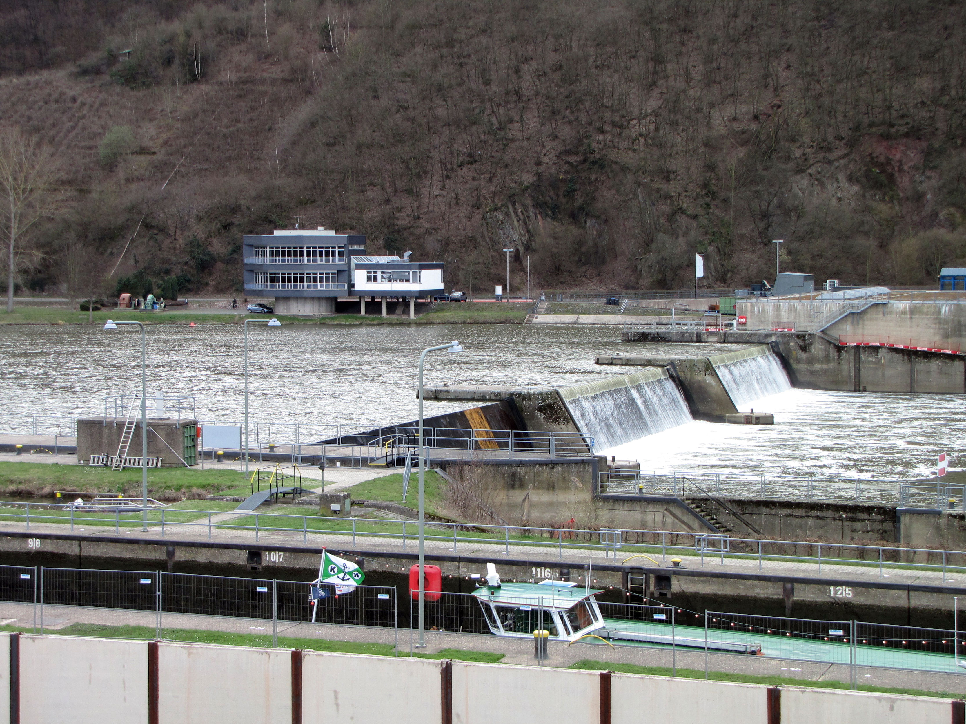 Barrage Fankel, Moselle River